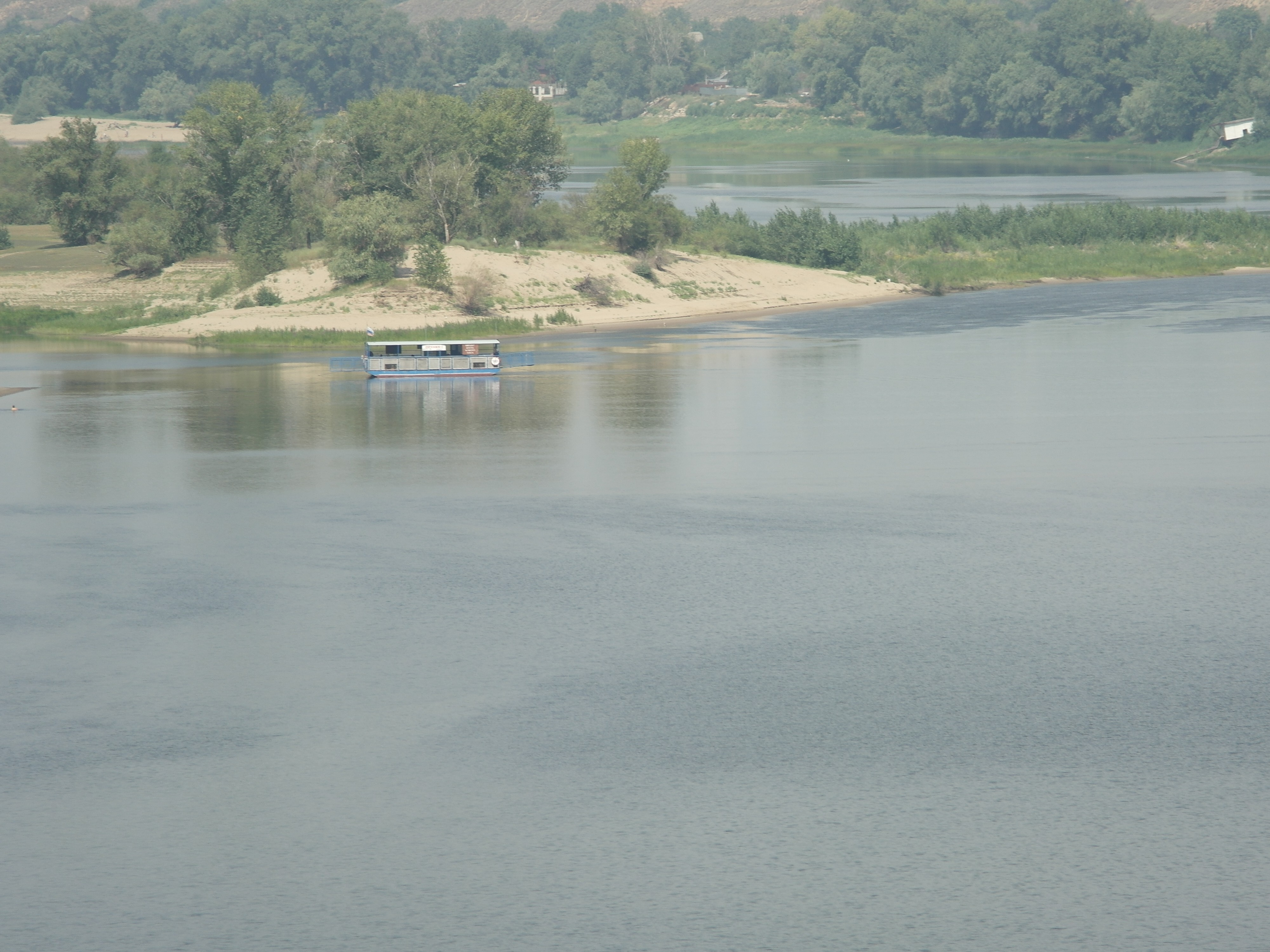 Паром (Волжский, Волгоград)